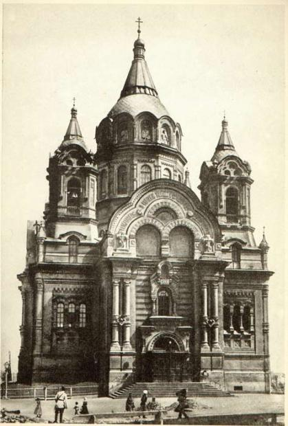 Saint Petersburg (Russia), Kalashnikovskaya (now Sinopskaya) Embankment, Saints Boris and Gleb Churche.